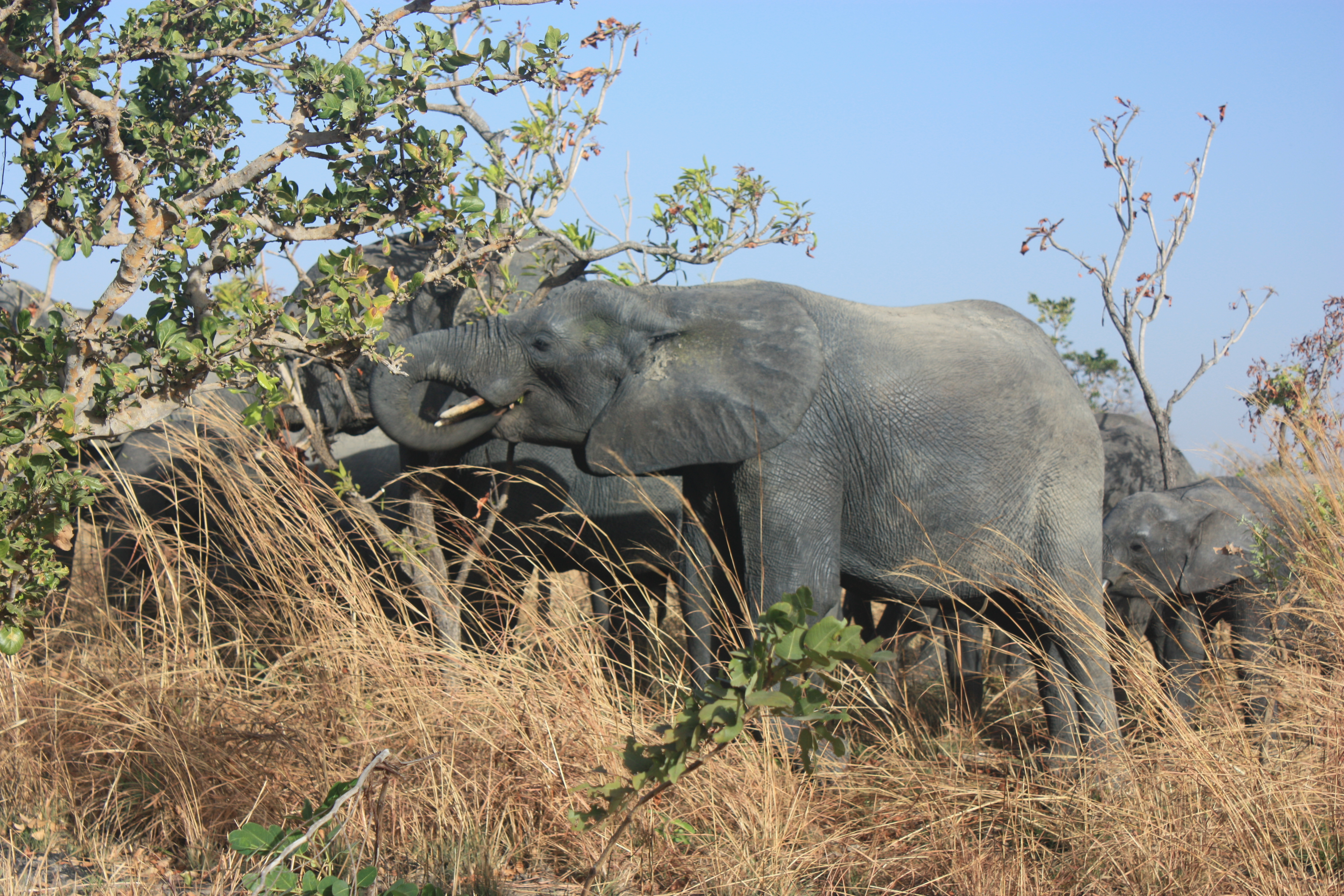 African Elephant feeding on Vitellaria paradoxa, Ranch de Nazinga, southern Burkina Faso